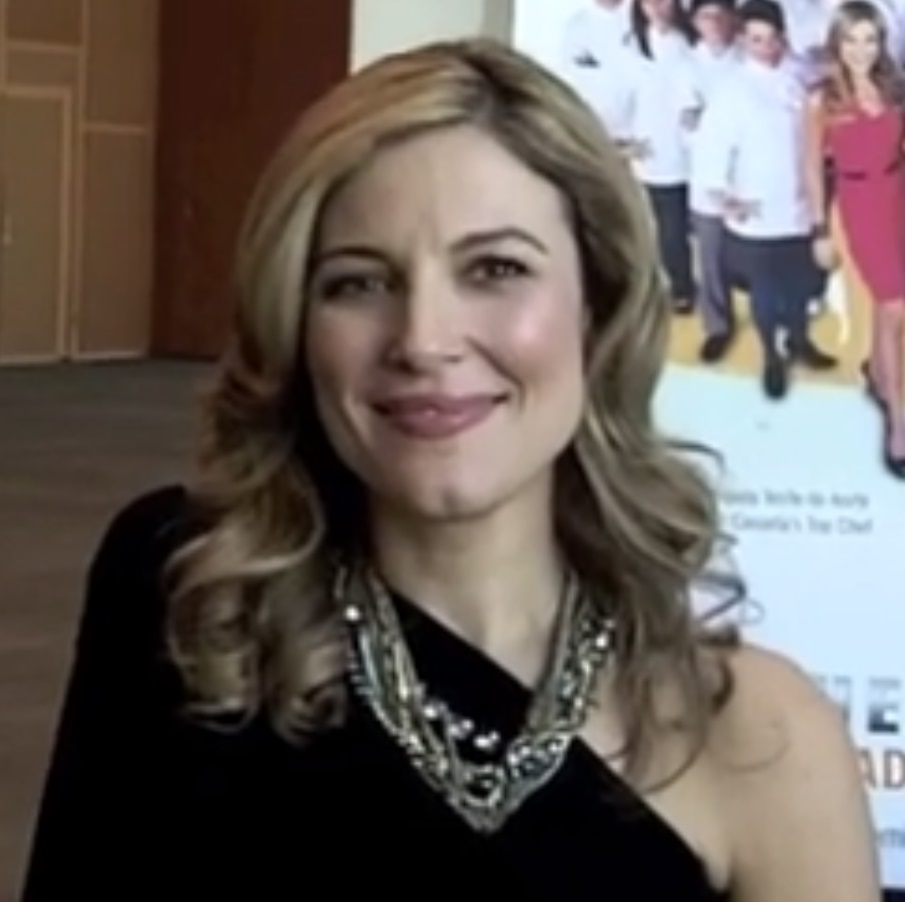 Top Chef Canada host Thea Andrews discusses making the new Food Network Canada series with Good Food Revolution's Malcolm Jolley.